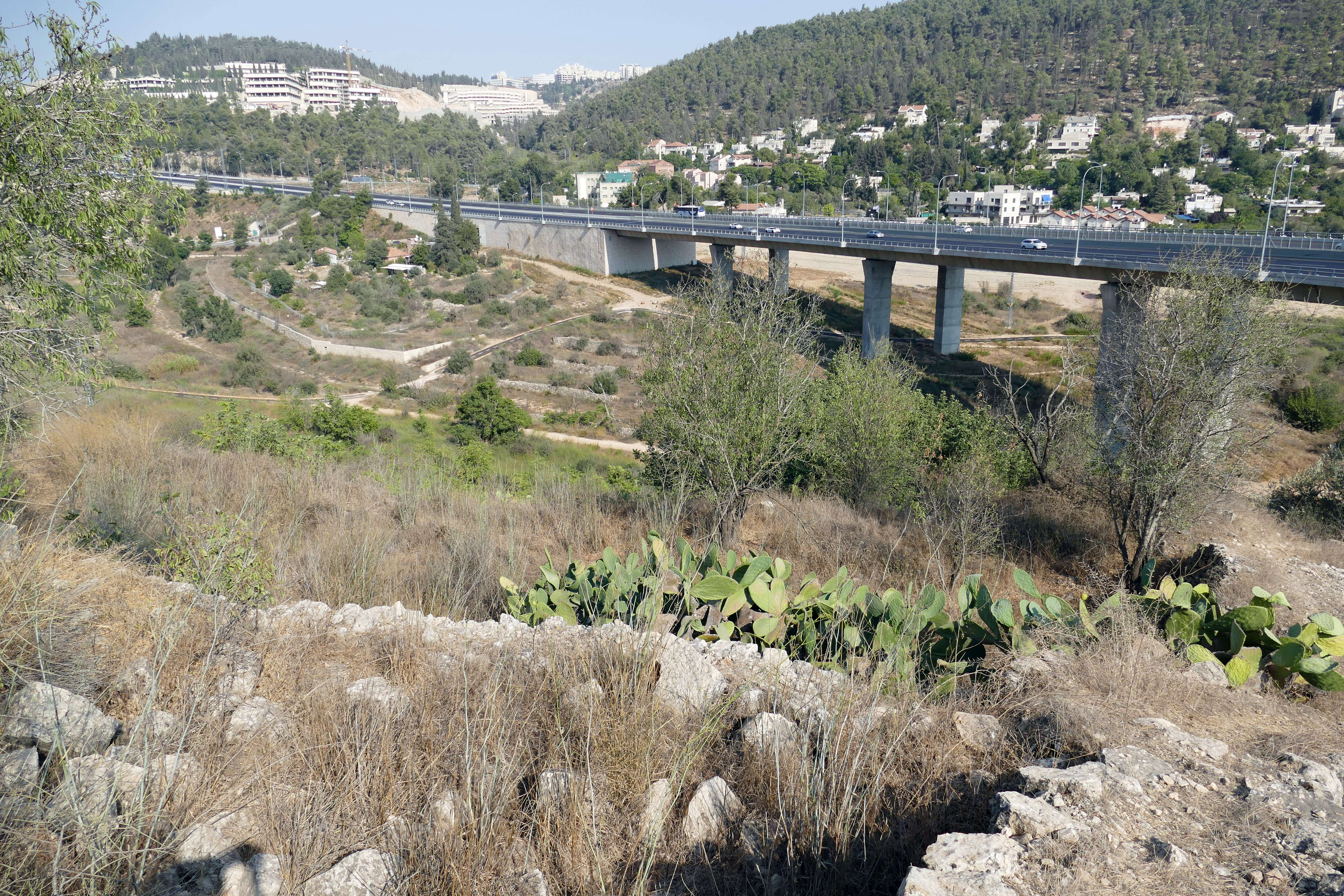 Motza, Israel.